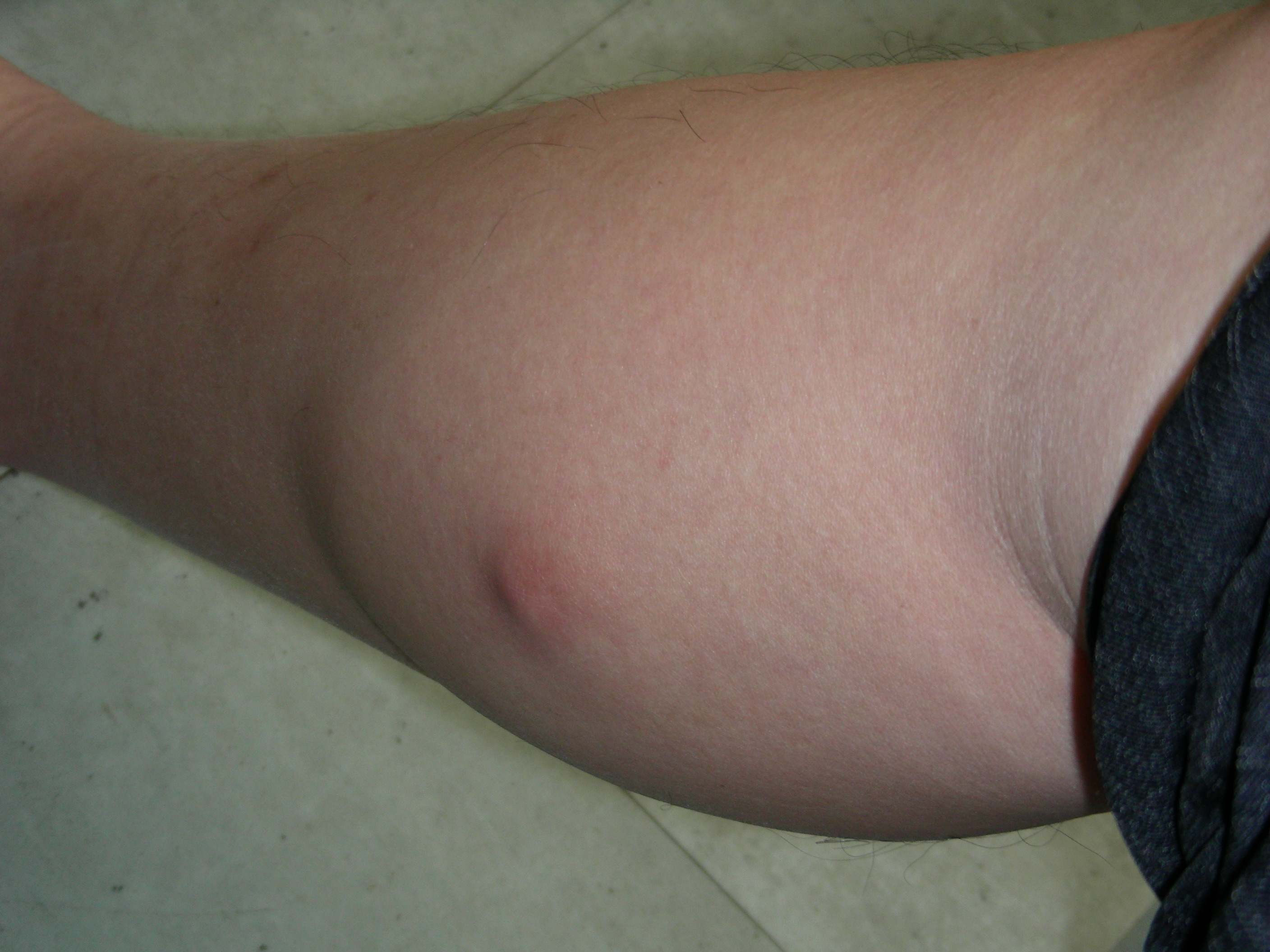 An uninfected sebaceous cyst found on the calf of a leg